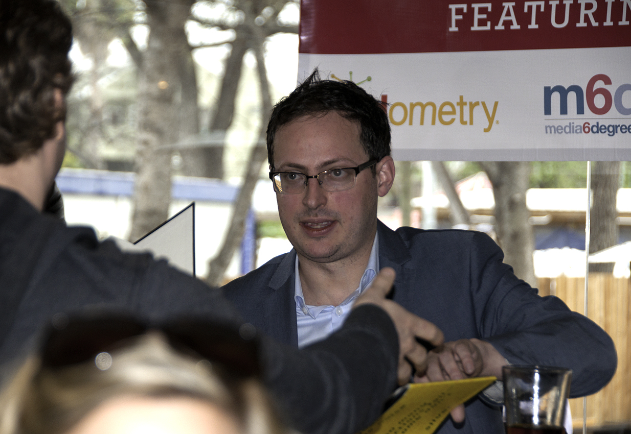 Nate Silver signing copies of his book after speaking at Bunglalow in Austin for SXSW 2013.